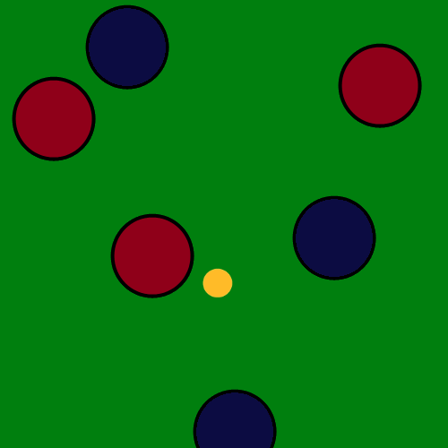 Illustration of scoring in the game of Petanque